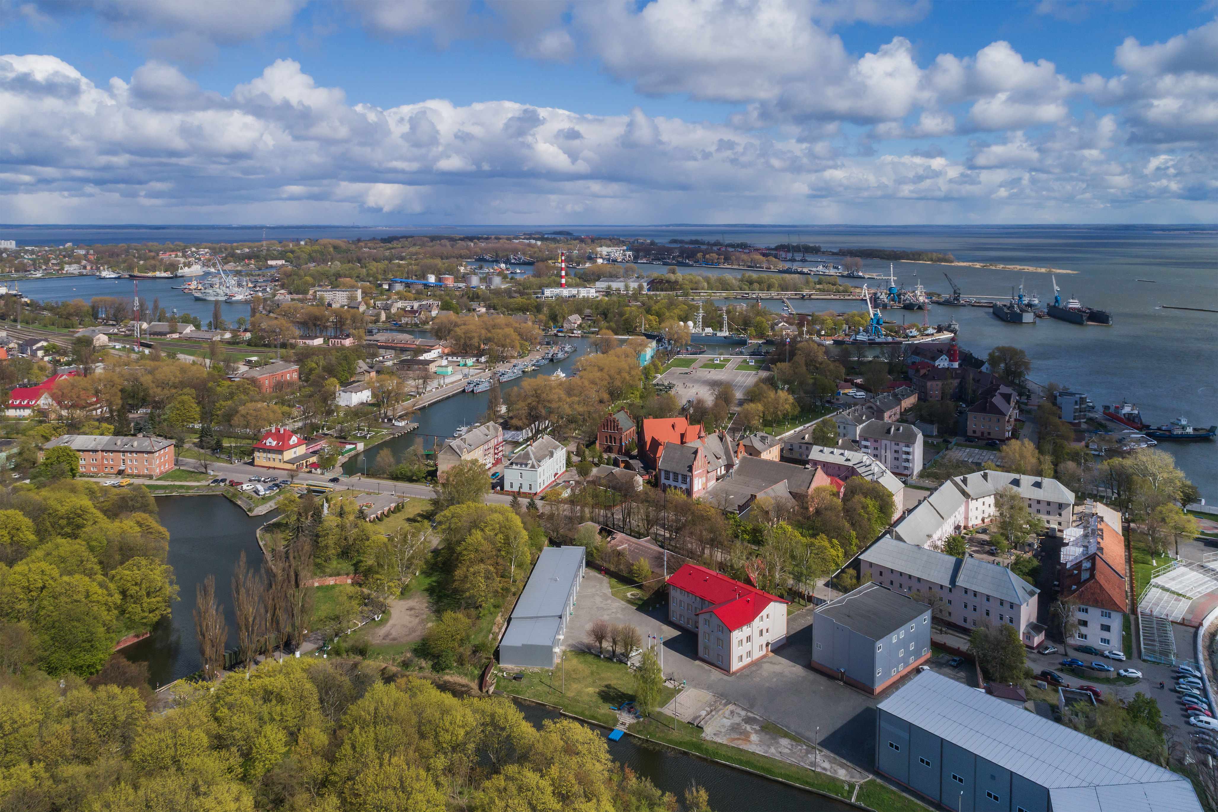 Aerial photo of Baltiysk formerly Pillau / Kaliningrad Oblast (Russia).